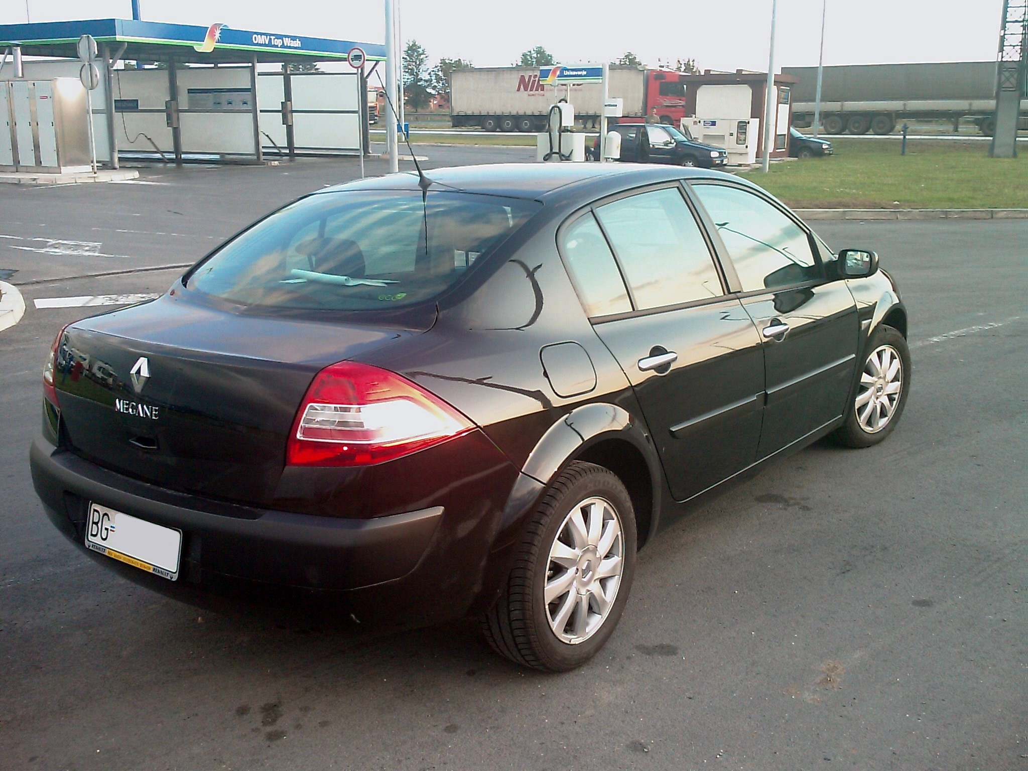 Renault Megane Sedan 2008